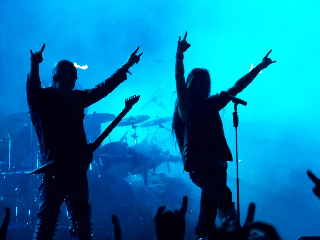 Dimmu Borgir at Metalcamp (Slovenia) 2009.